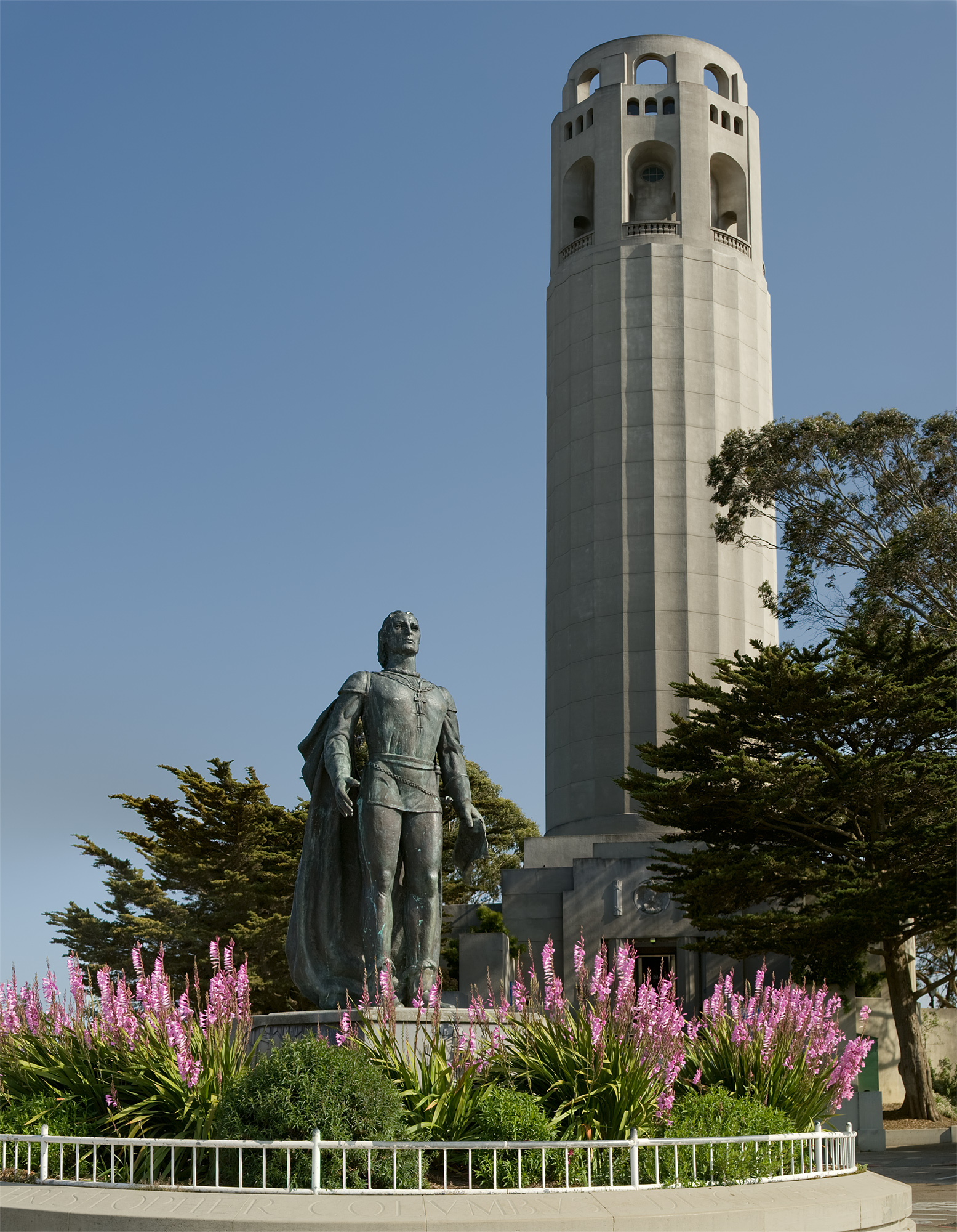 Coit Tower in San Francisco, California. A statue of Christopher Columbus is in the foreground.